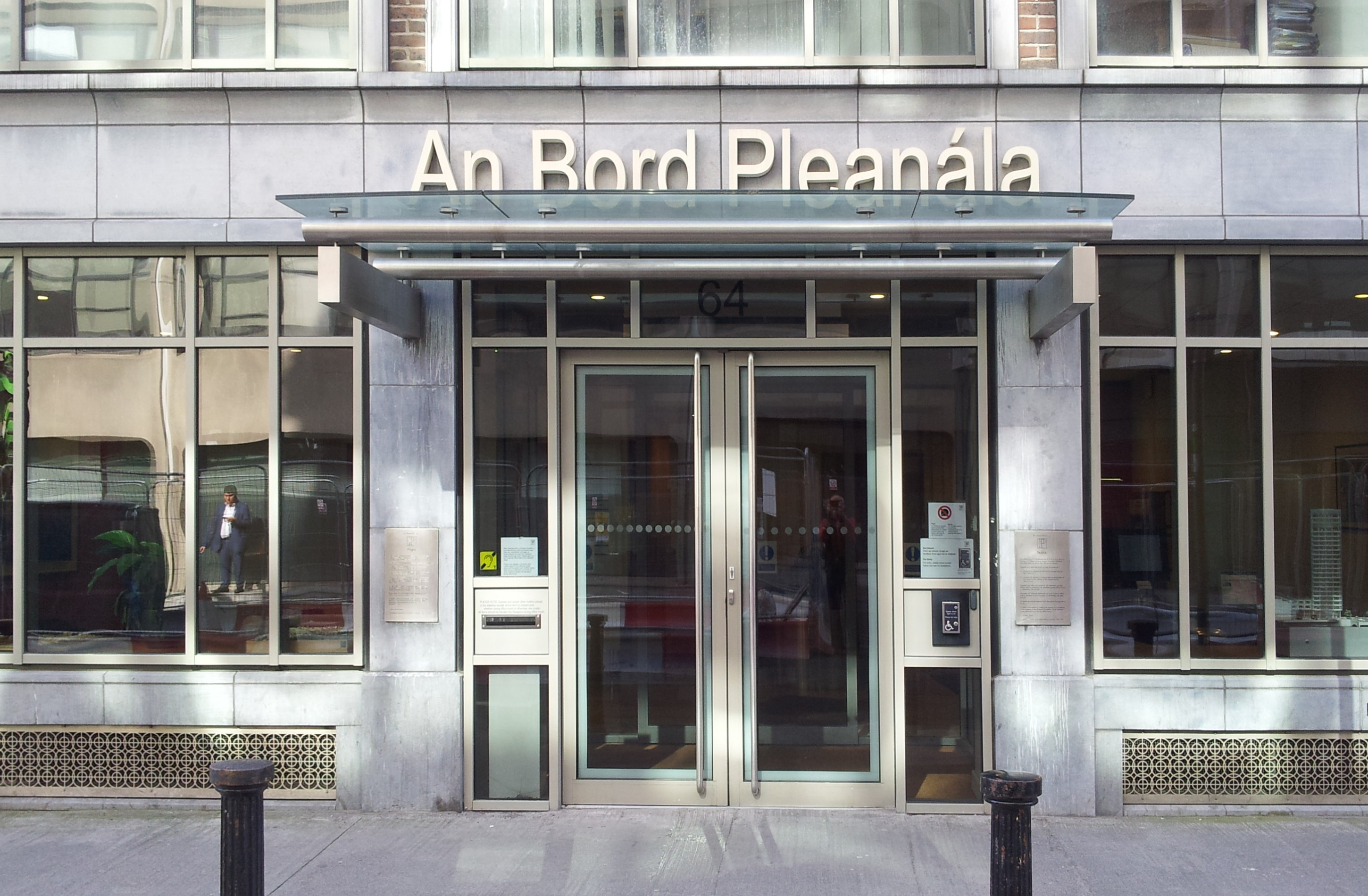 Office of An Bord Pleanála in Dublin